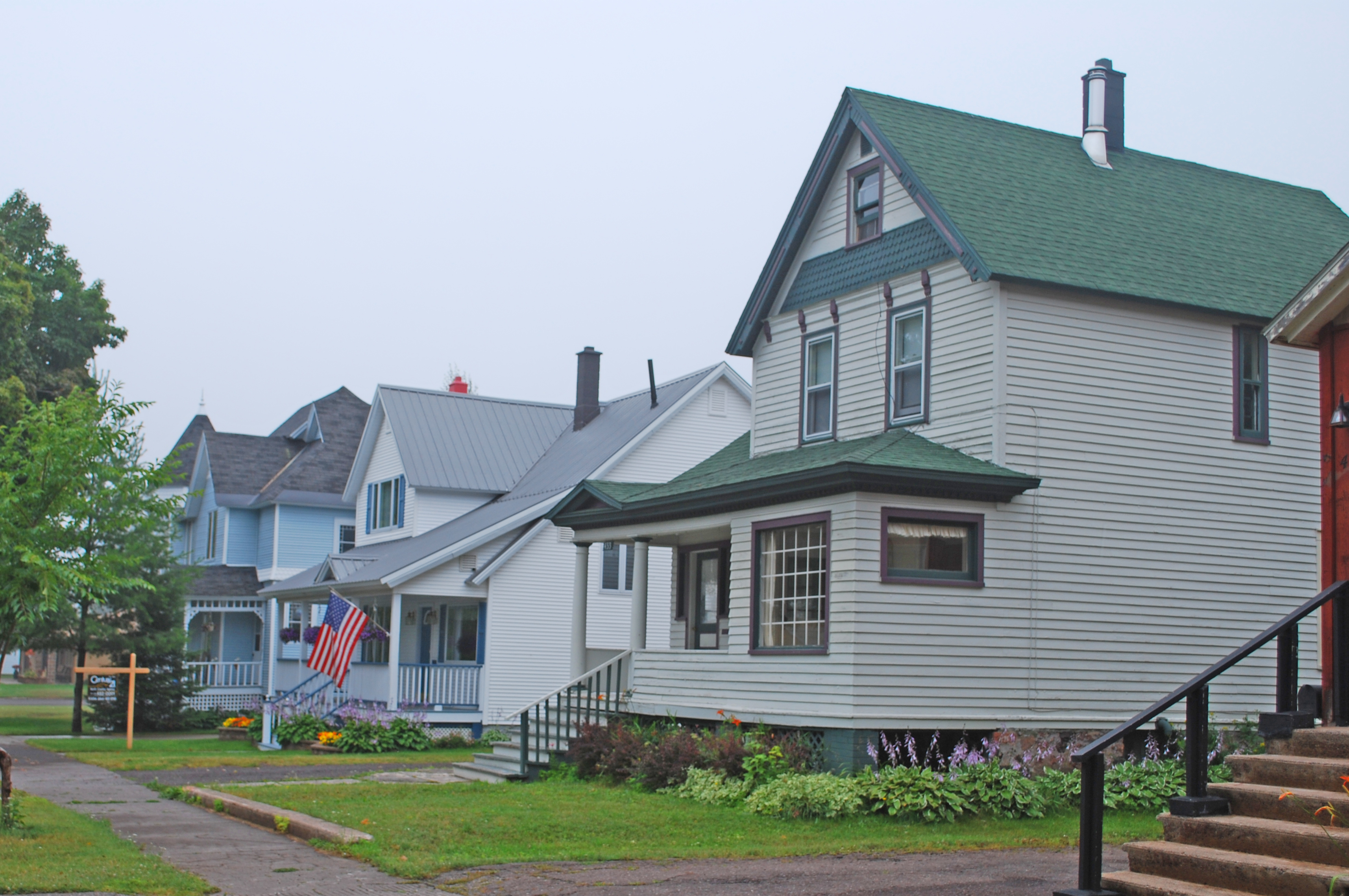 Wooden houses in the Laurium Historic District — Laurium, Keweenaw National Historical Park, Michigan.